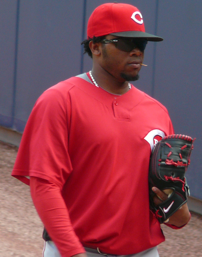 If used somewhere other than Wikipedia, Nelson, by name. 03:38, 20 September 2009 . . Chrisjnelson . . 678×860 (462 KB)